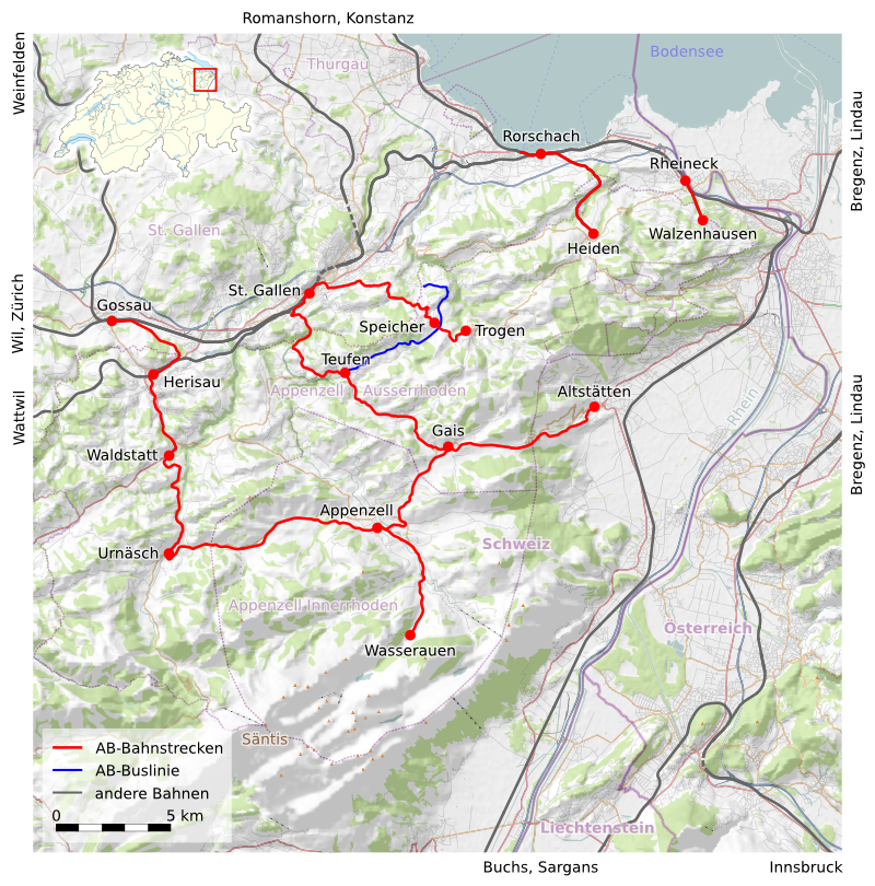 Rail map Appenzeller Bahnen